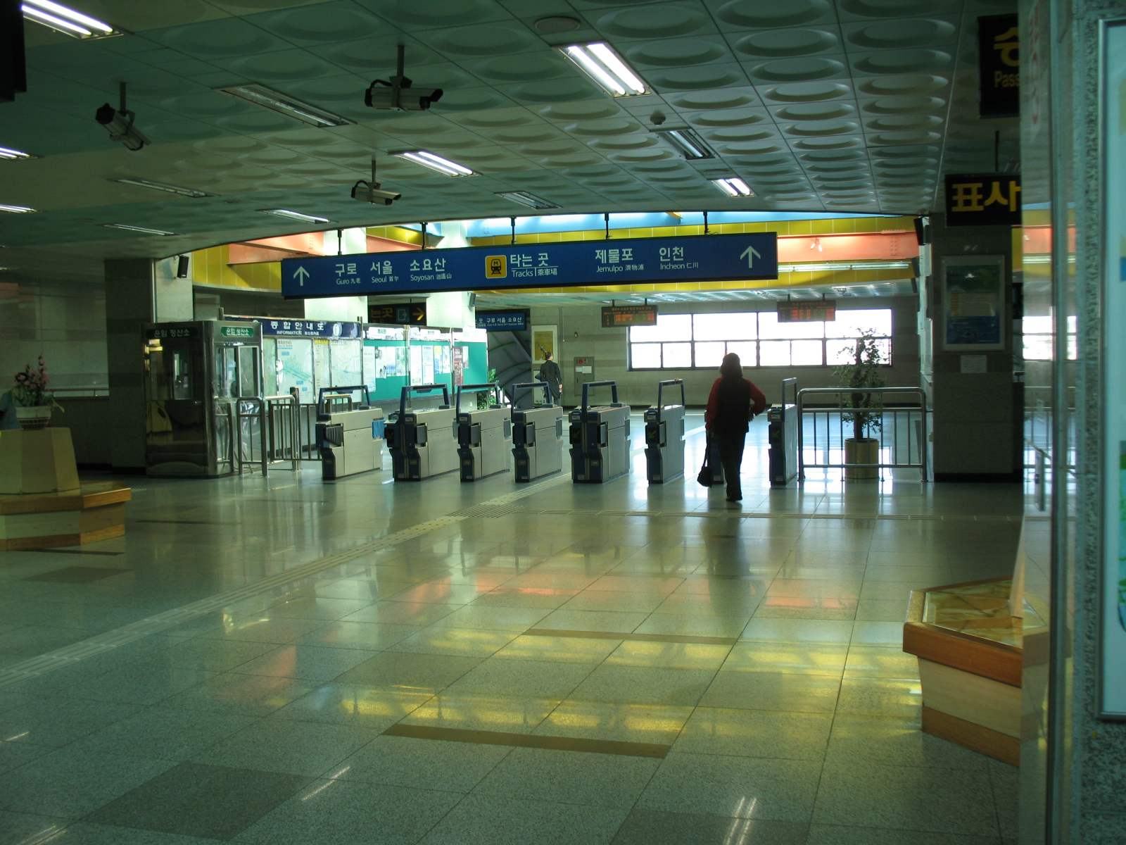 Seoul Subway Line 1 Dohwa Station